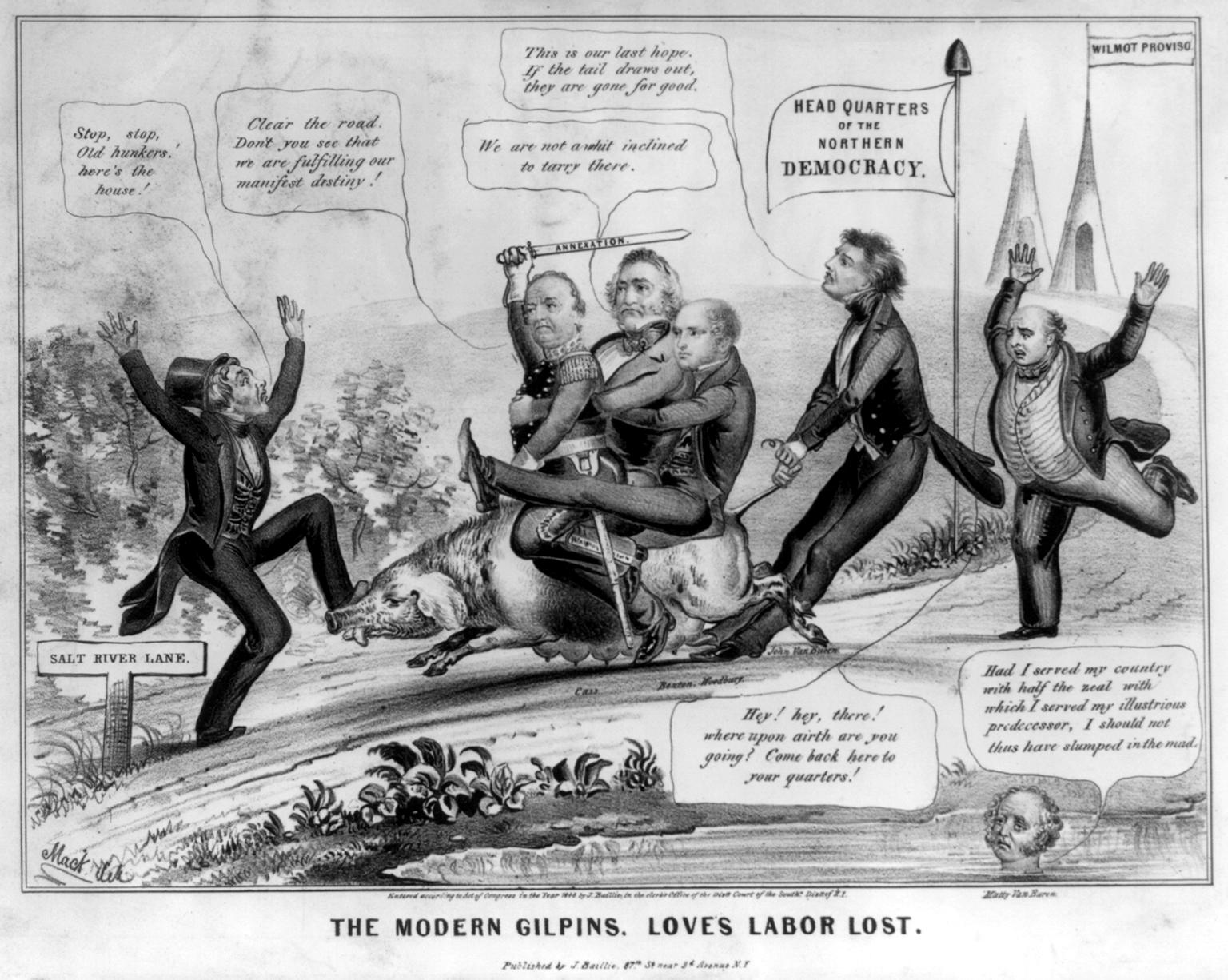 'A parody of Democratic politics in the months preceding the party's 1848 national convention. Specifically, the artist ridicules the rivalry within the party between Free Soil or anti-slavery interests, which upheld the Wilmot Proviso, and regular, conservative Democrats or Hunkers." The "Gilpins" (named after the hero of William Cowper's 1785 "Diverting History of John Gilpin," who also loses control of his mount, to comic effect) are regular Democrats Lewis Cass, Thomas Hart Benton, and Levi Woodbury, who ride a giant sow down "Salt River Lane" away from the "Head Quarters of the Northern Democracy".' ("Salt River" is a symbol of political doom.)